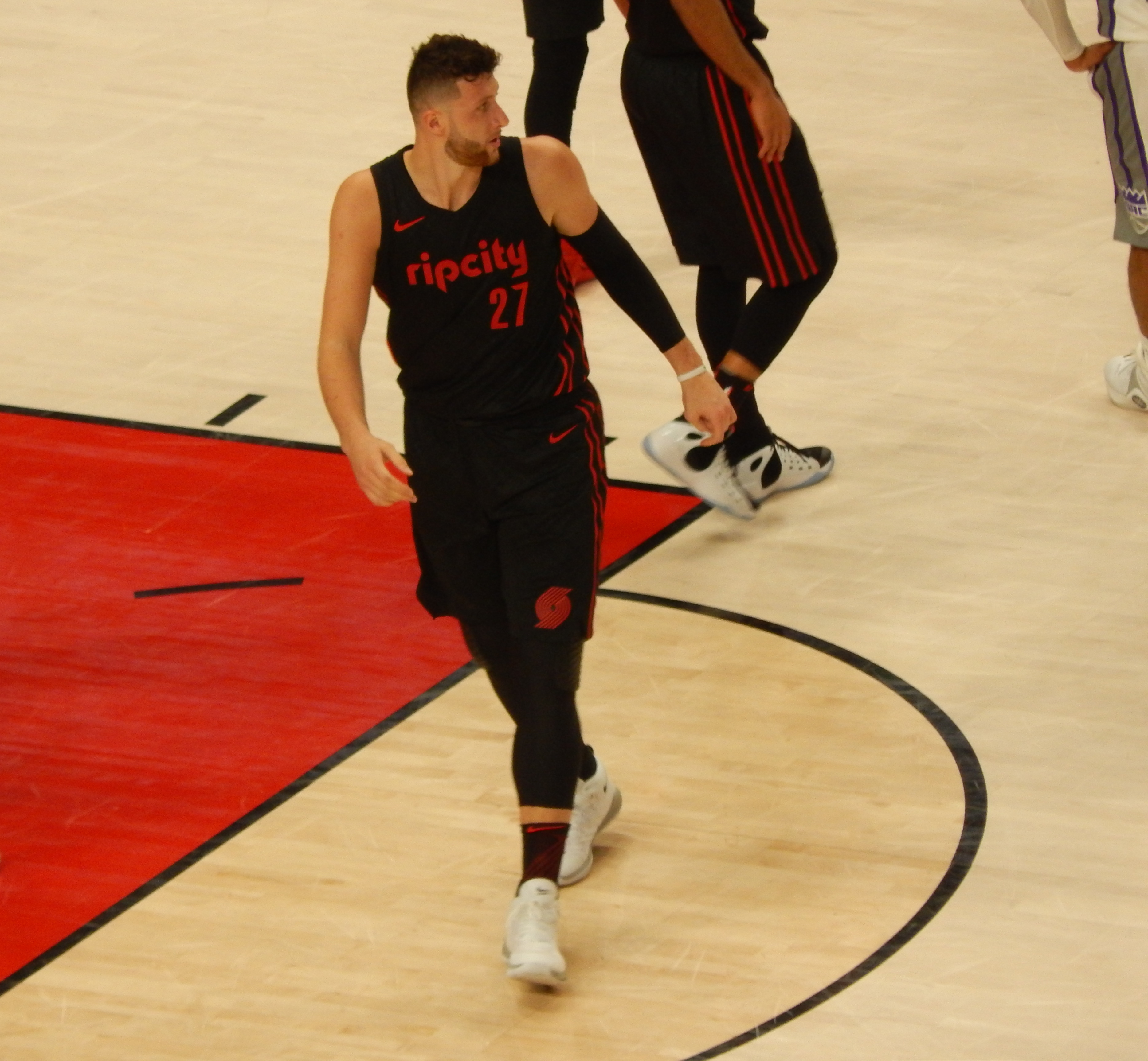 Jusuf Nurkić #27 of the Portland Trail Blazers against the Sacramento Kings on February 27, 2018 at Moda Center in Portland, Oregon.